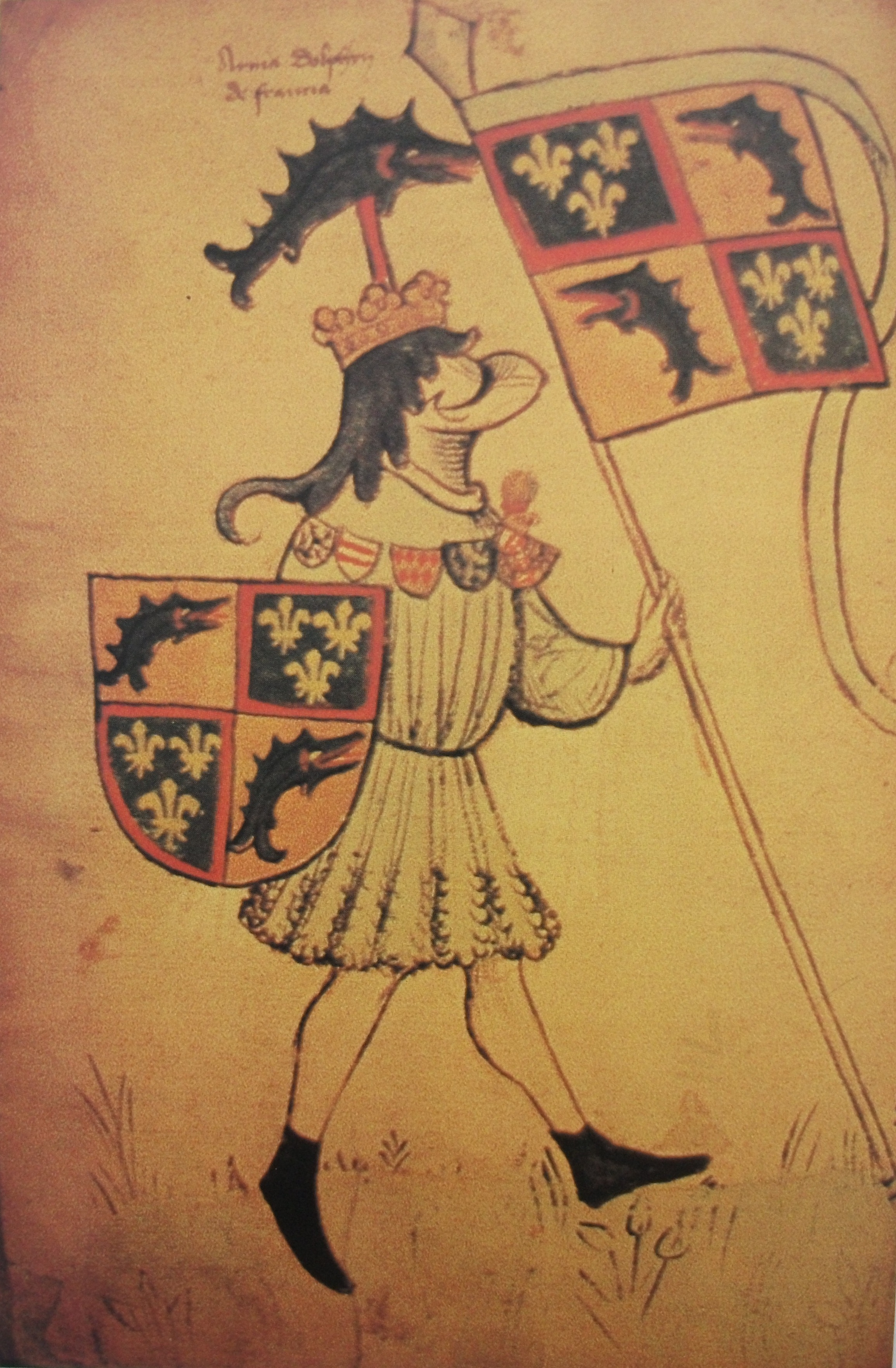 The Dauphin and later French King Louis XI about 1450.